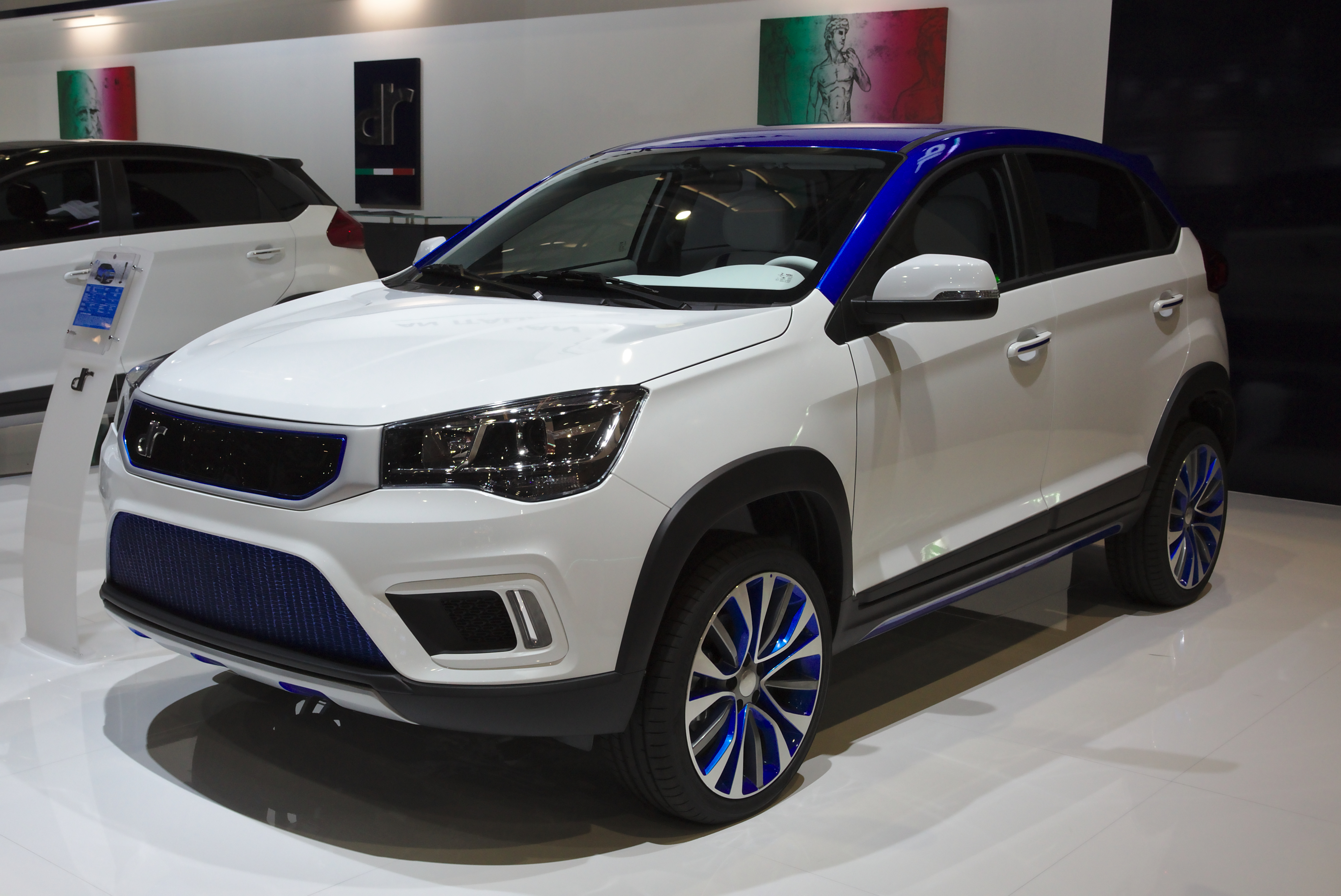 DR 3 EV at Geneva Motor Show 2019